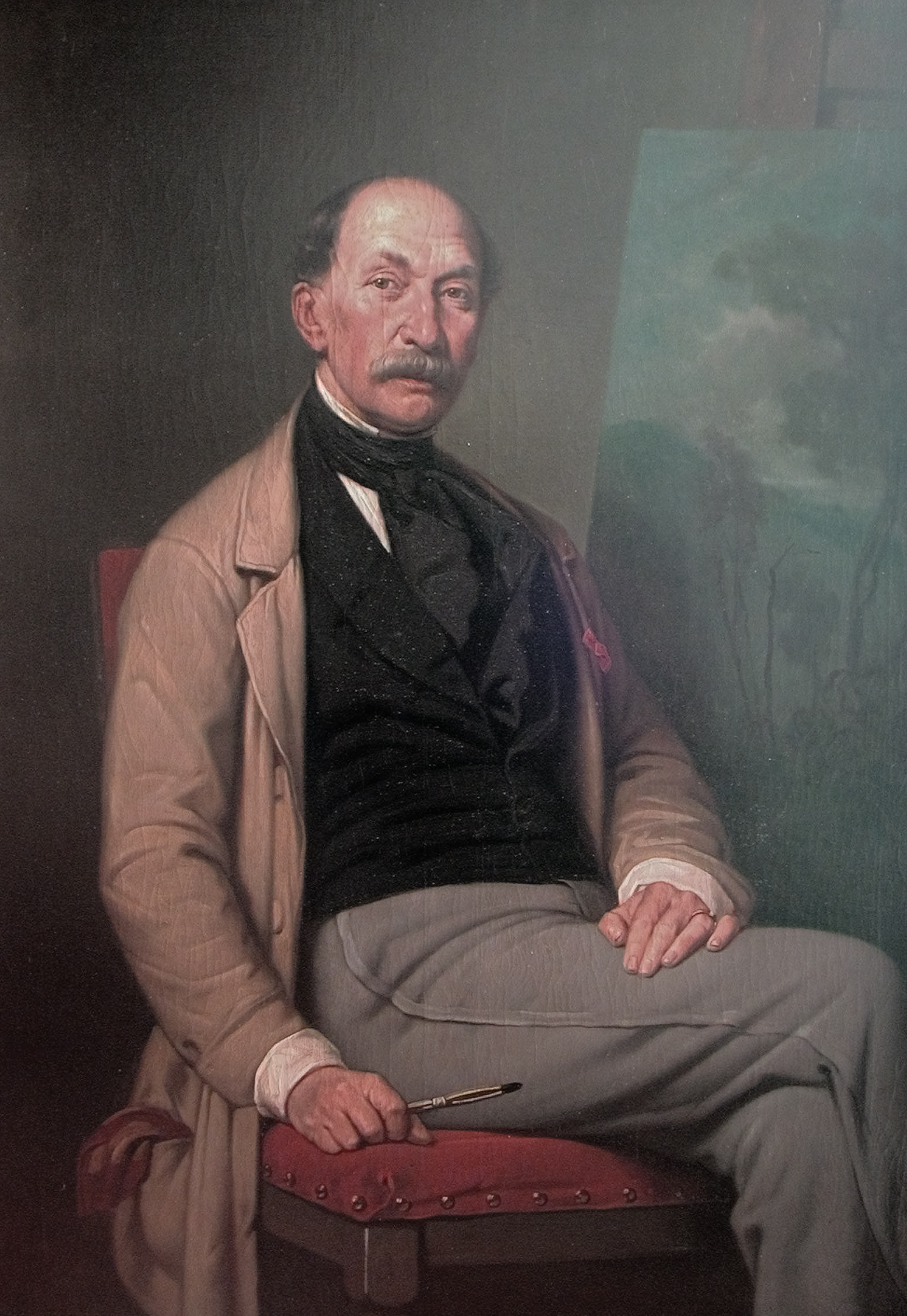 Paul Lauters oil on canvas 123 x 88 cm